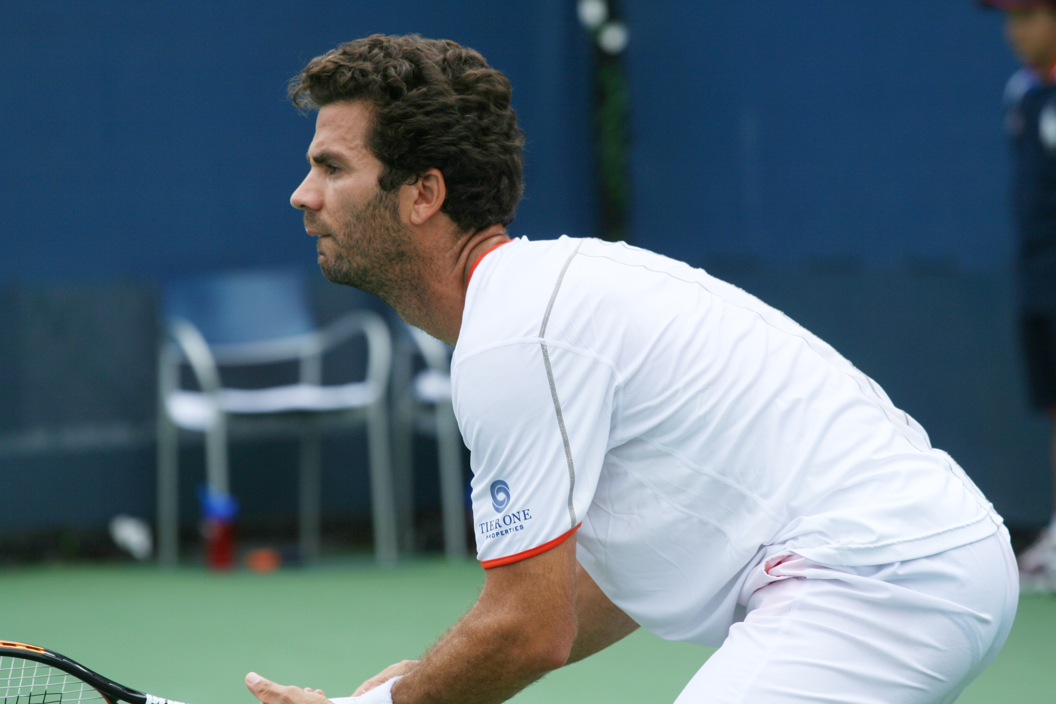 Saturday, August 31, 2013